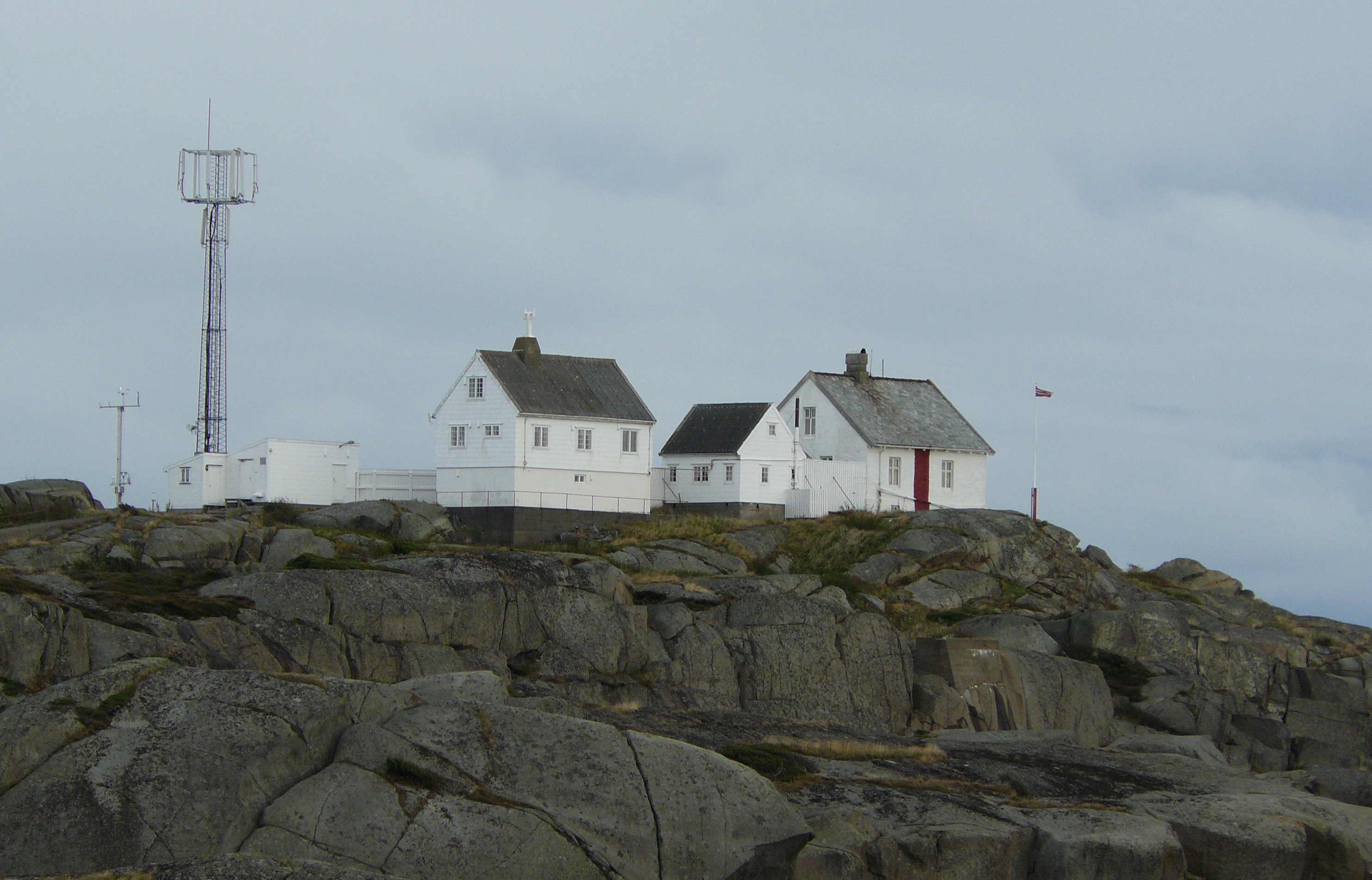 Stavernsodden lighthouse in Stavern, Norway